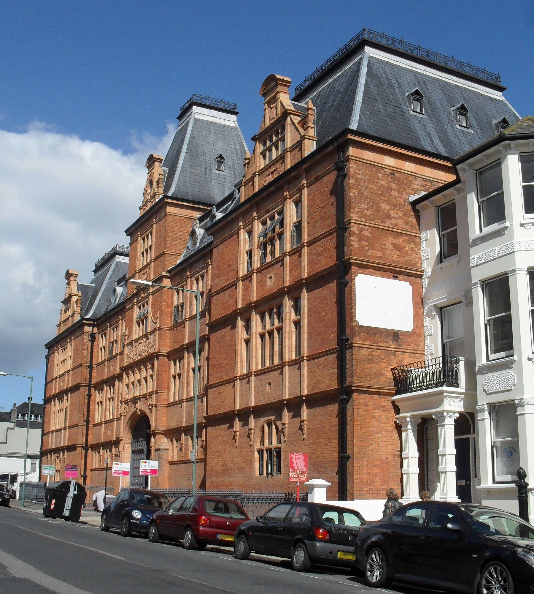 75 Holland Road, Hove, City of Brighton and Hove, East Sussex. Converted into loft-style apartments in 2004, but formerly the Brighton & Hove Co-operative Supply Association Furniture Depository. Designed by [Thomas] Lainson & Sons. Listed at Grade II by English Heritage (IoE Code 365547)